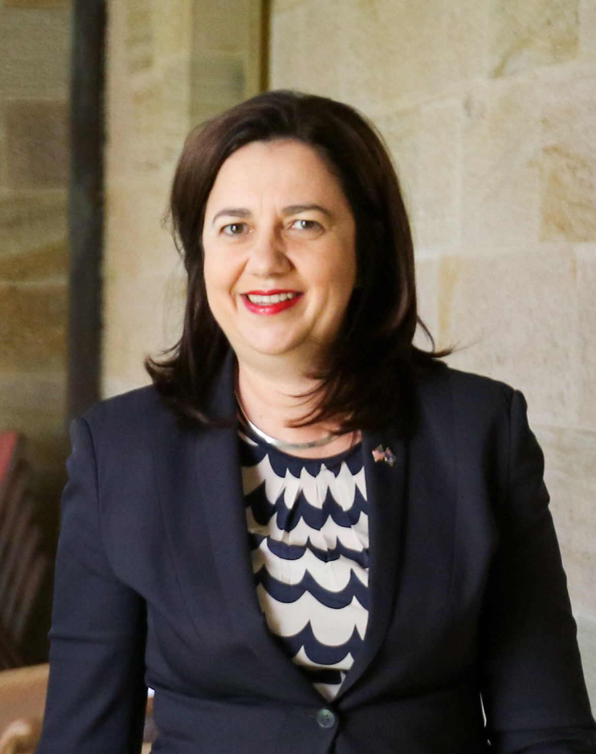 160817-N-BN625-001 BRISBANE, Australia (Aug 17, 20016) Queensland Premier Annastacia Palaszczuk and U.S. Deputy Under Secretary of the Navy for Management Thomas Hicks walk together to the "Red Chamber" in State of Queensland's Parliament House to sign a Statement of Cooperation to work in support of projects that advance shared interests. The agreement spells out a commitment for the U.S. Navy and the State of Queensland to hold discussions on the research, development, supply and sale of alternative fuels, which can improve operational flexibility and increase energy security. (U.S. Navy photo by Chief Mass Communication Specialist Hendrick Simoes/Released)